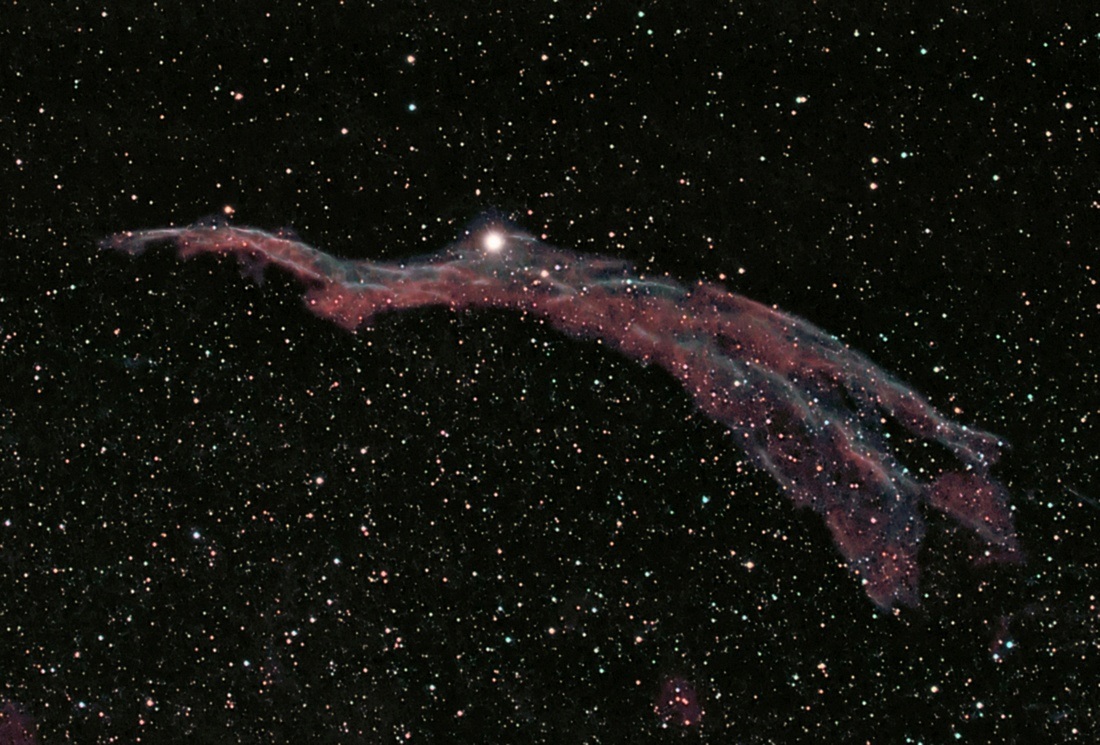 The Western Veil (also known as Caldwell 34), consisting of NGC 6960 (the "Witch's Broom") near the foreground star 52 Cygni